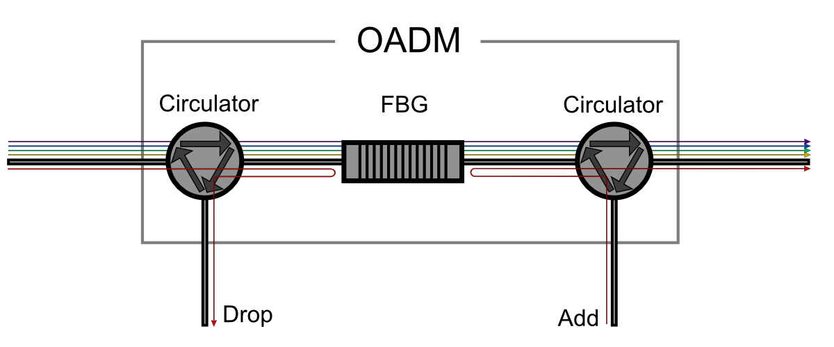 Optical Add-Drop Multiplexer, using a Fiber Bragg Grating and two circulators. [1]